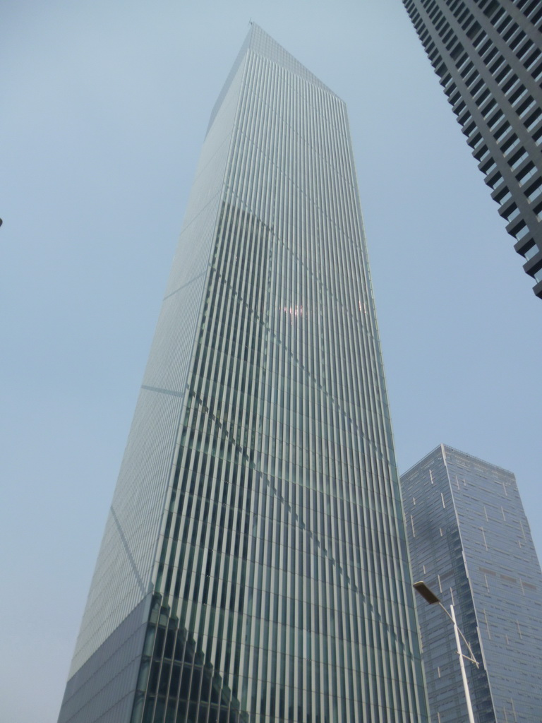 Leatop Plaza @ Teanhe, Guangzhou, Guangdong, China